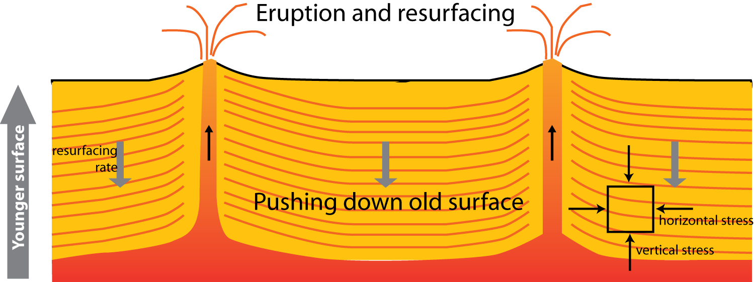 This figure shows resurfacing process on the Io and stresses related to this process